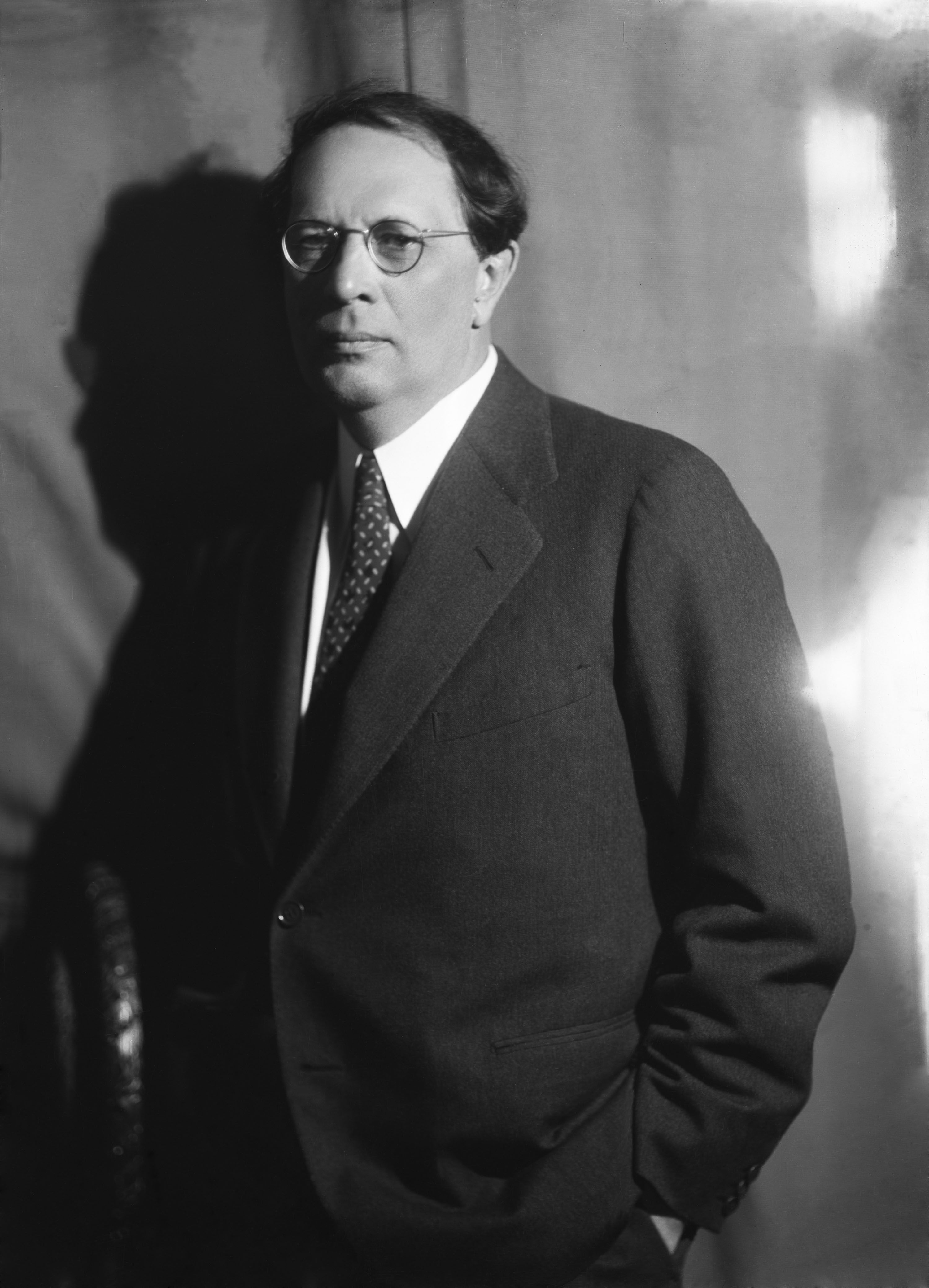 Photo of Aleksey Nikolayevich Tolstoy